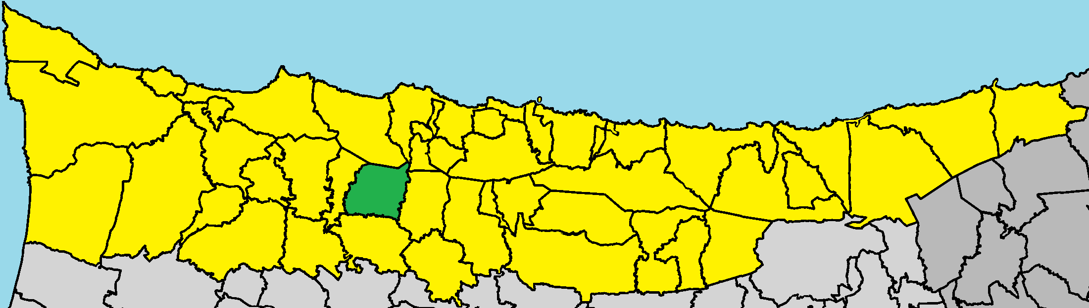 Sysklipos in Kyrenia District (de jure).